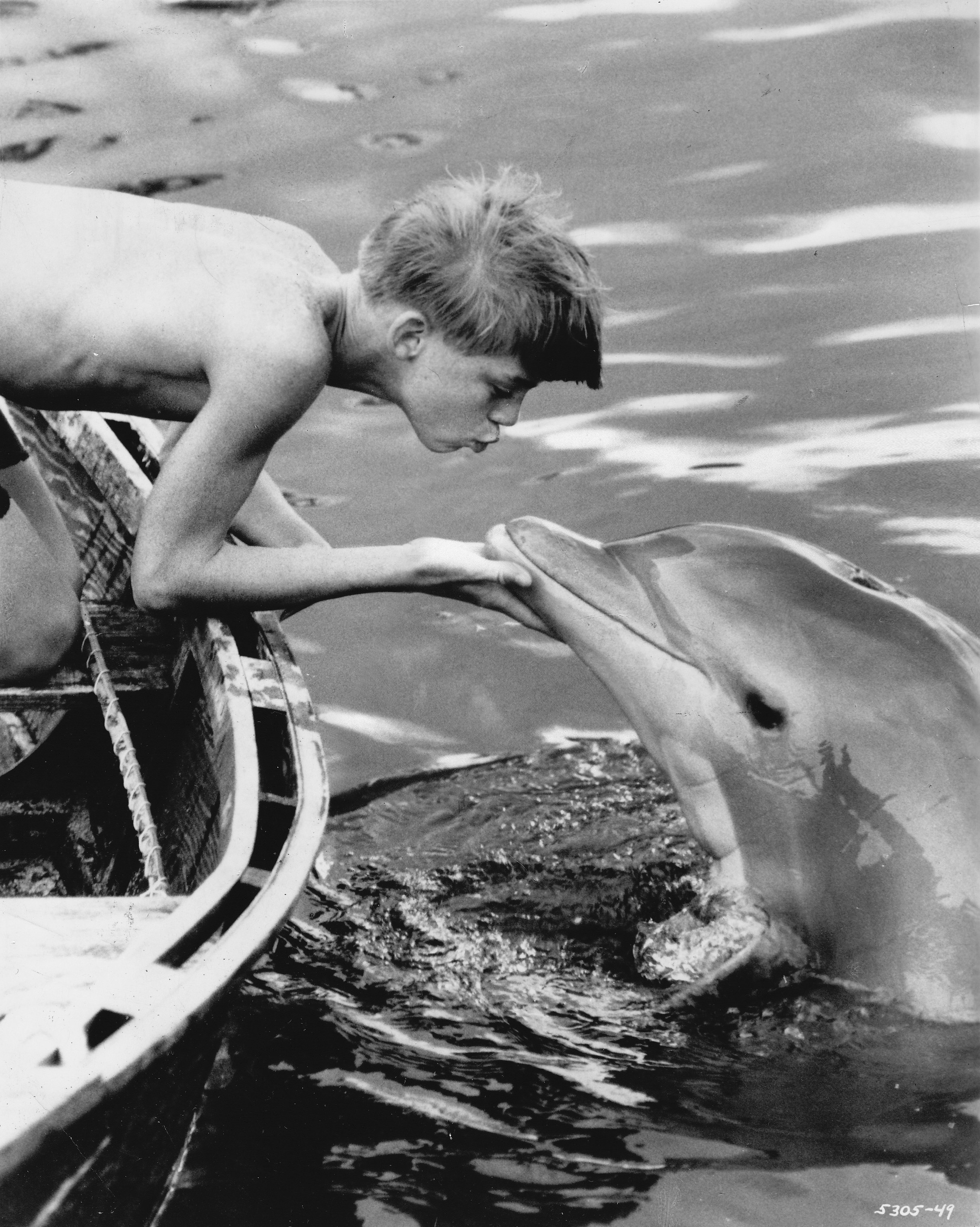 Publicity photo of teen actor Luke Halpin as Sandy Ricks with one of the dolphin performers in the 1963 feature film Flipper.